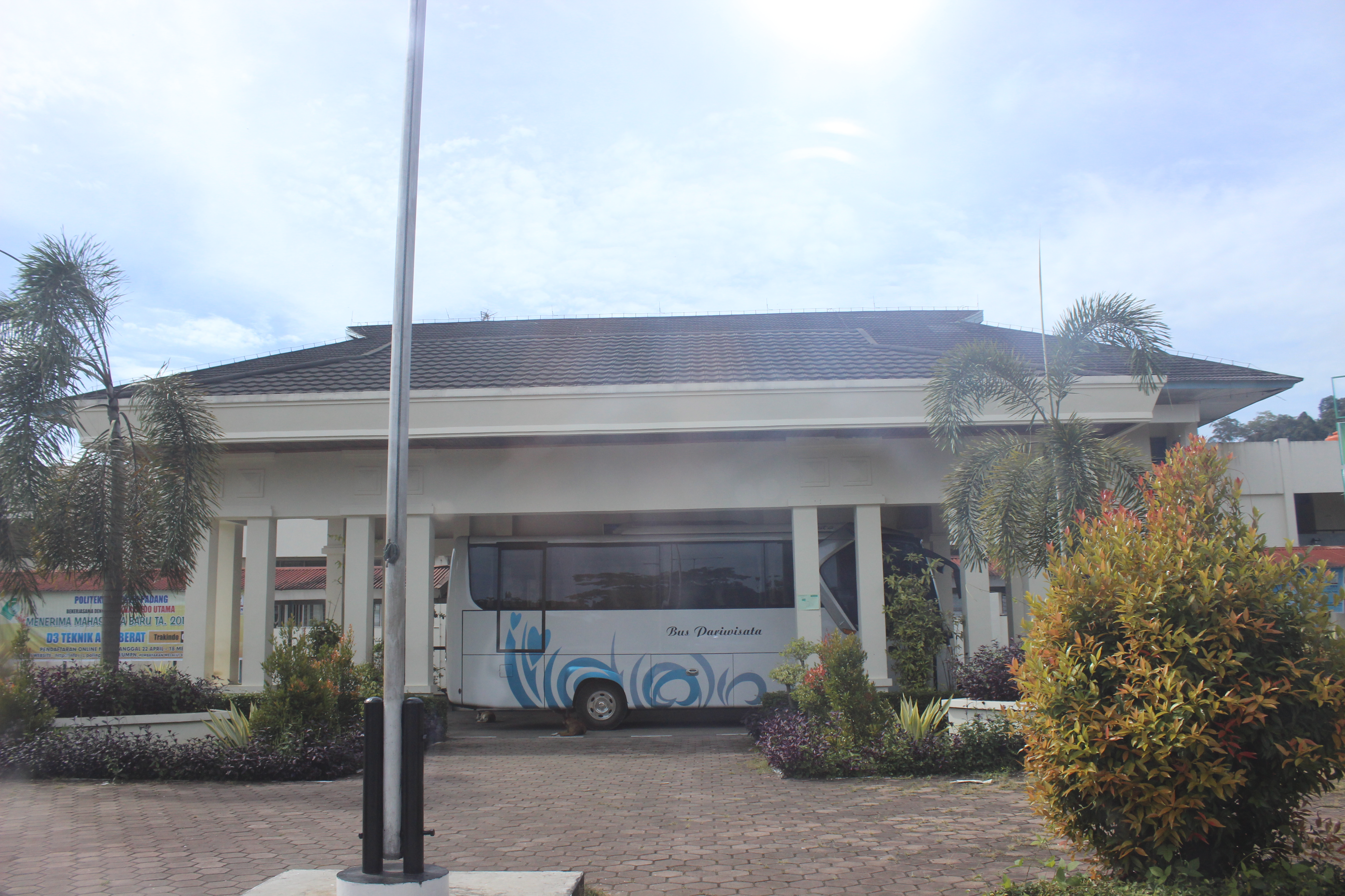 The central building of State Polytechnics of Andalas in Limau Manih, Padang